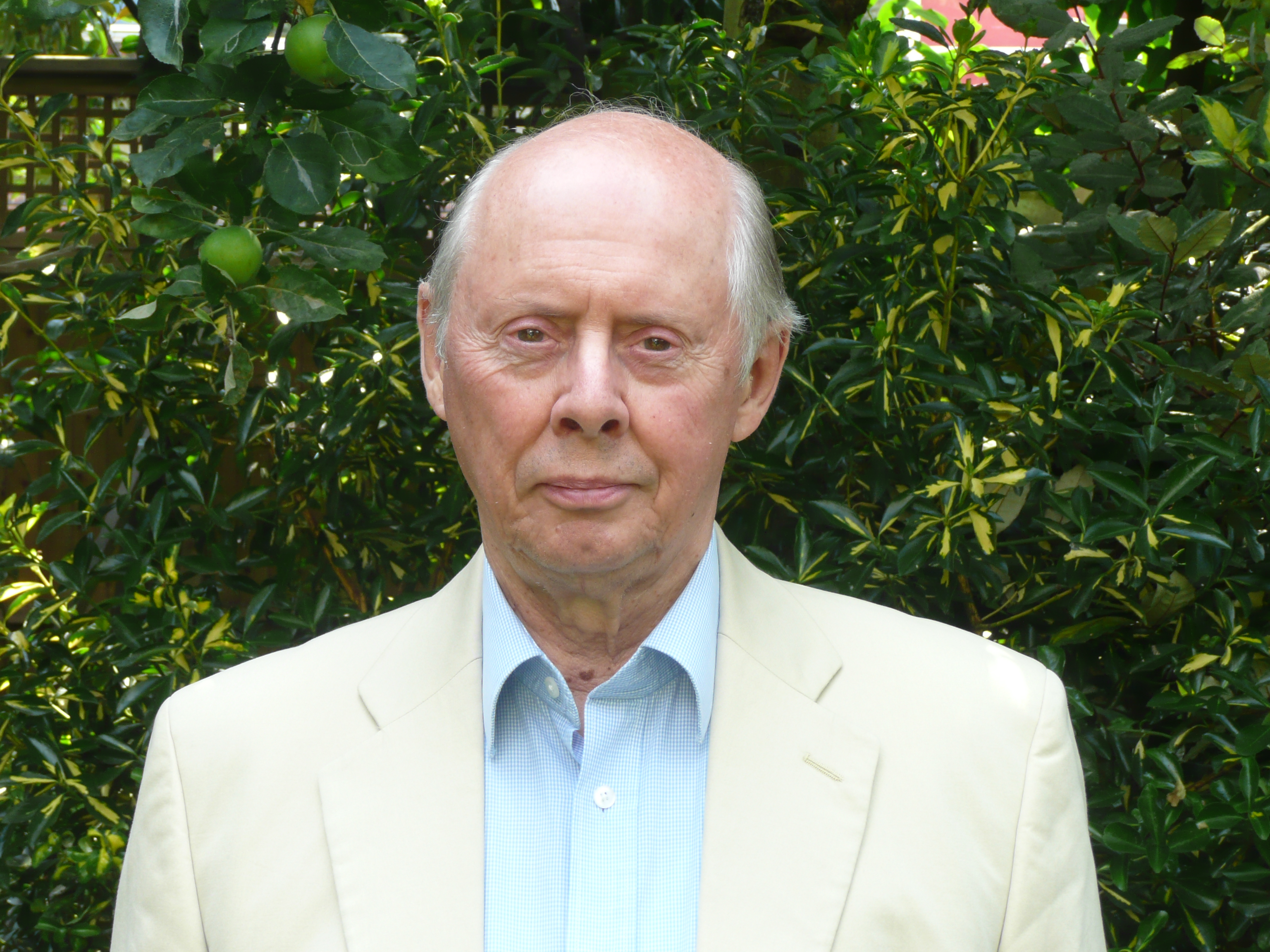 David Morphet photo